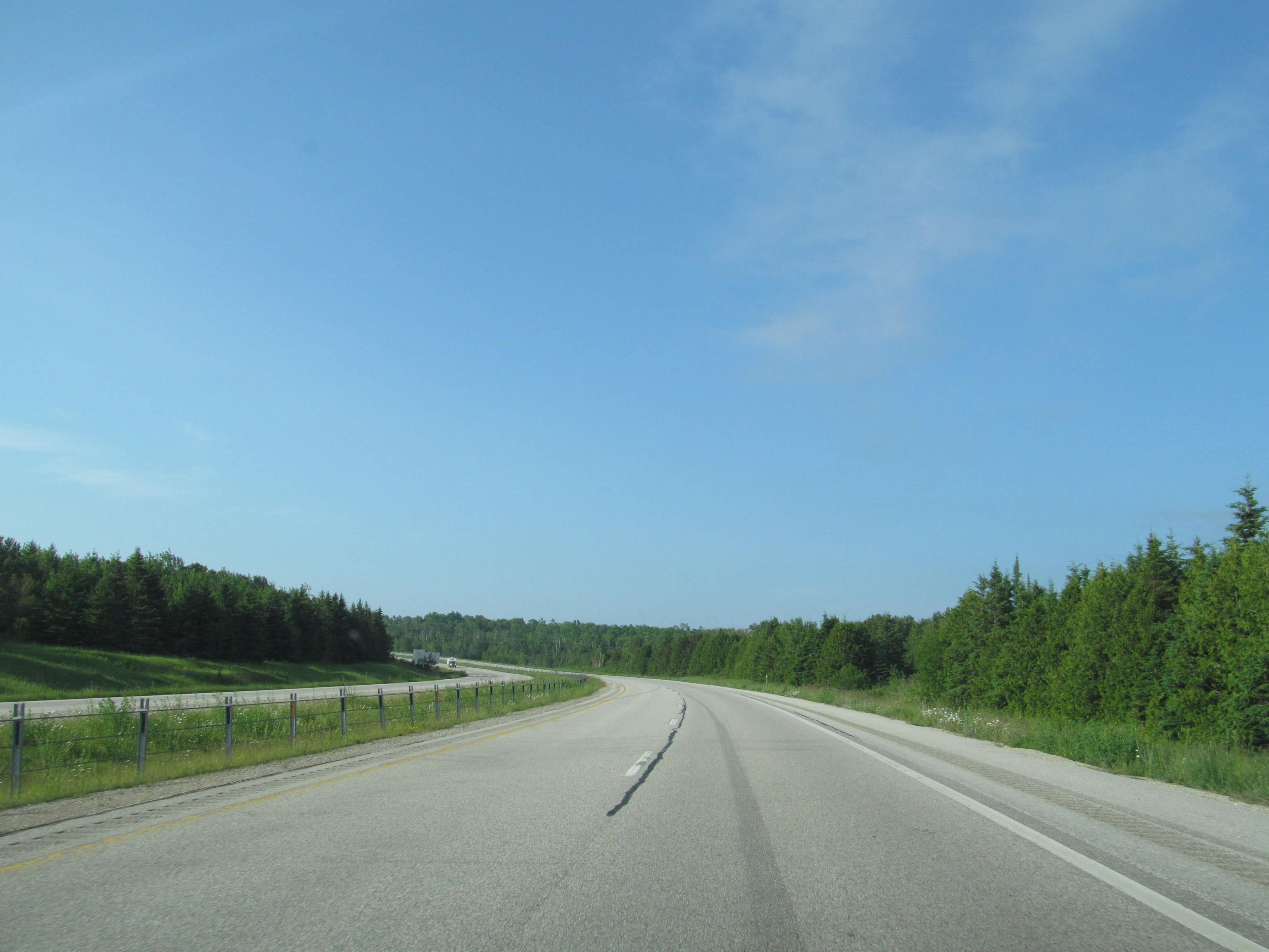 Interstate 75 in Michigan north of St. Ignace